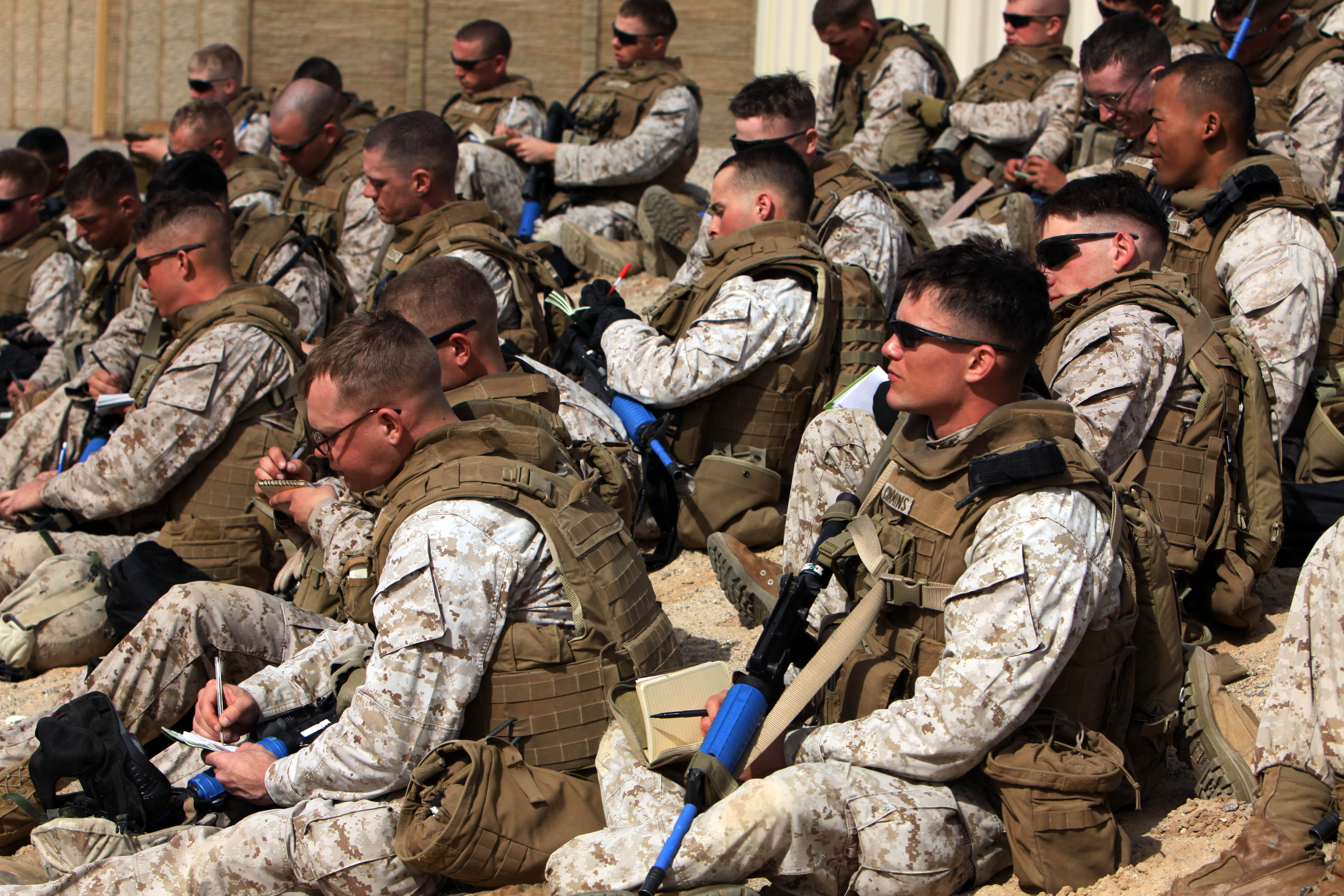 Marines with 1st Battalion, 7th Marine Regiment, take notes during an isolation class as part of the Tactical Small Unit Leaders Course at Combat Center Range 200 Feb. 9.